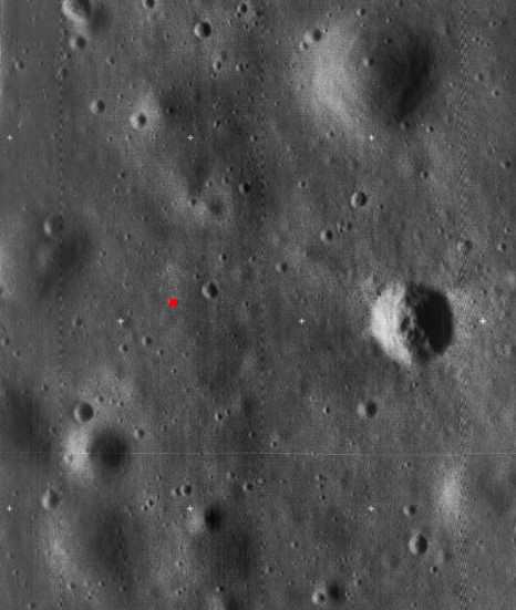 Apollo 11 landing site, Mare Tranquillitatis, on the moon. Lunar Orbiter 5 image used in mission planning. The landing site is indicated by a red dot. The prominent crater at right is West Crater (IAU link) and is about 185 m in diameter.